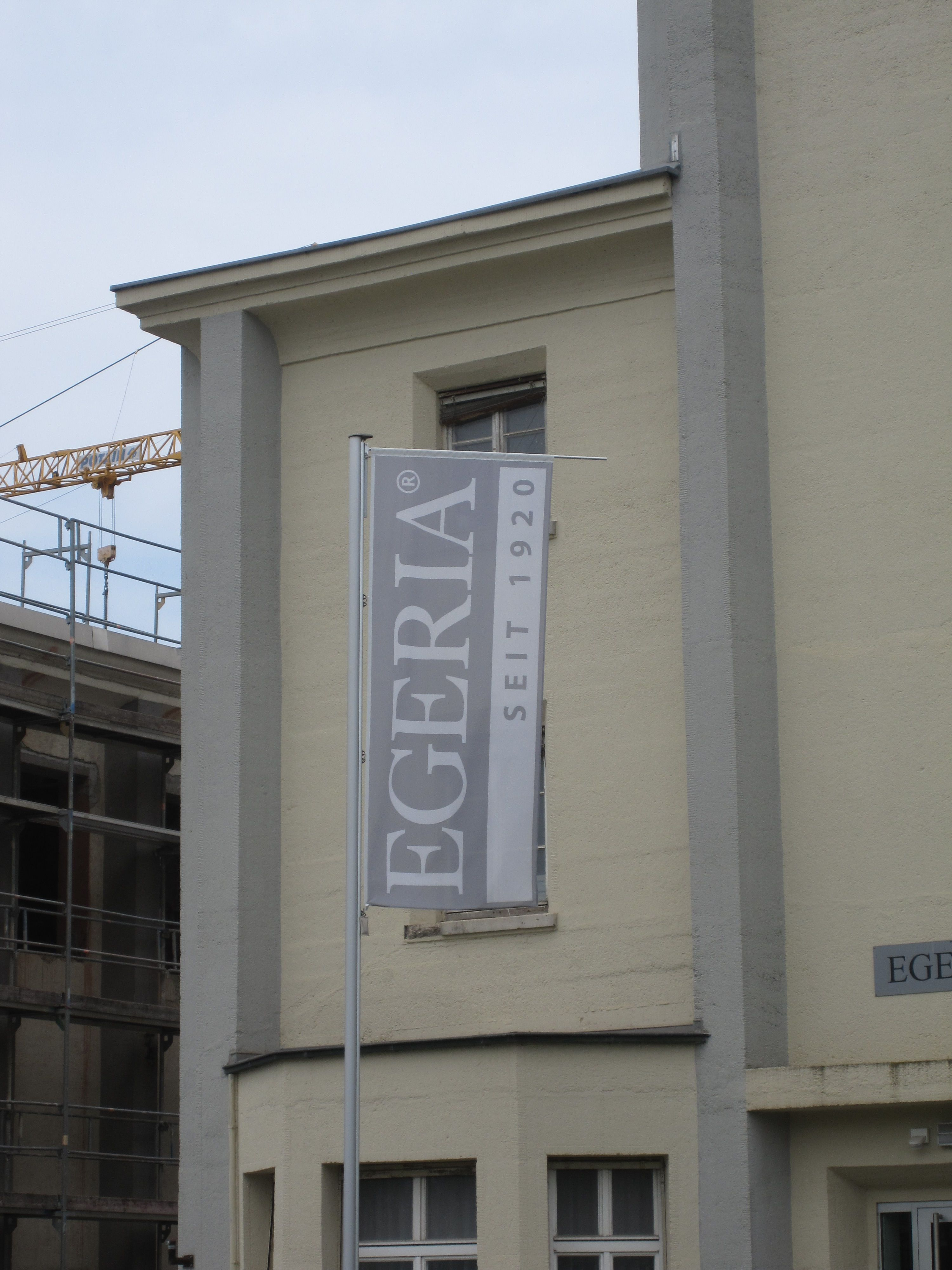 flag with egeria brand